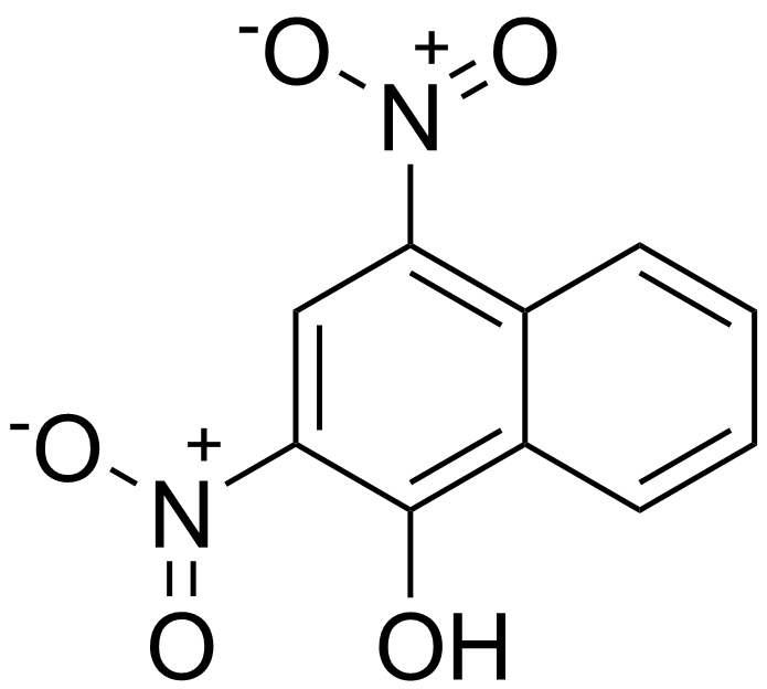 chemical structure of martius yellow (2,4-Dinitronaphthol; Martinsgelb; C.I. 10315; Acid yellow 24)